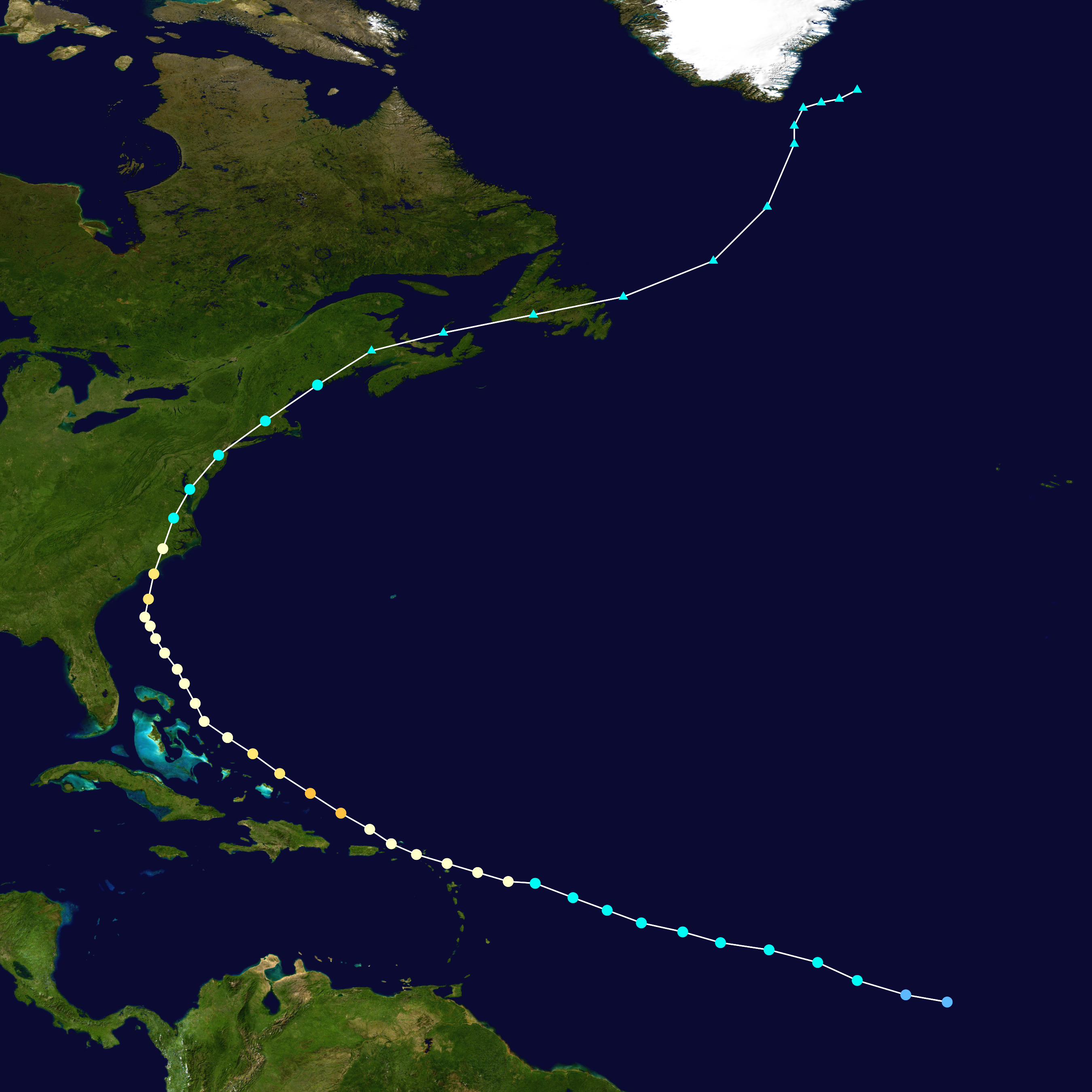 Track map of Hurricane Bertha of the 1996 Atlantic hurricane season. The points show the location of the storm at 6-hour intervals. The colour represents the storm's maximum sustained wind speeds as classified in the Saffir–Simpson scale (see below), and the shape of the data points represent the nature of the storm, according to the legend below. Saffir–Simpson scale Tropical depression≤38 mph≤62 km/h Category 3111–129 mph178–208 km/h Tropical storm39–73 mph63–118 km/h Category 4130–156 mph209–251 km/h Category 174–95 mph119–153 km/h Category 5≥157 mph≥252 km/h Category 296–110 mph154–177 km/h Unknown Storm type Tropical cyclone Subtropical cyclone Extratropical cyclone / Remnant low / Tropical disturbance / Monsoon depression